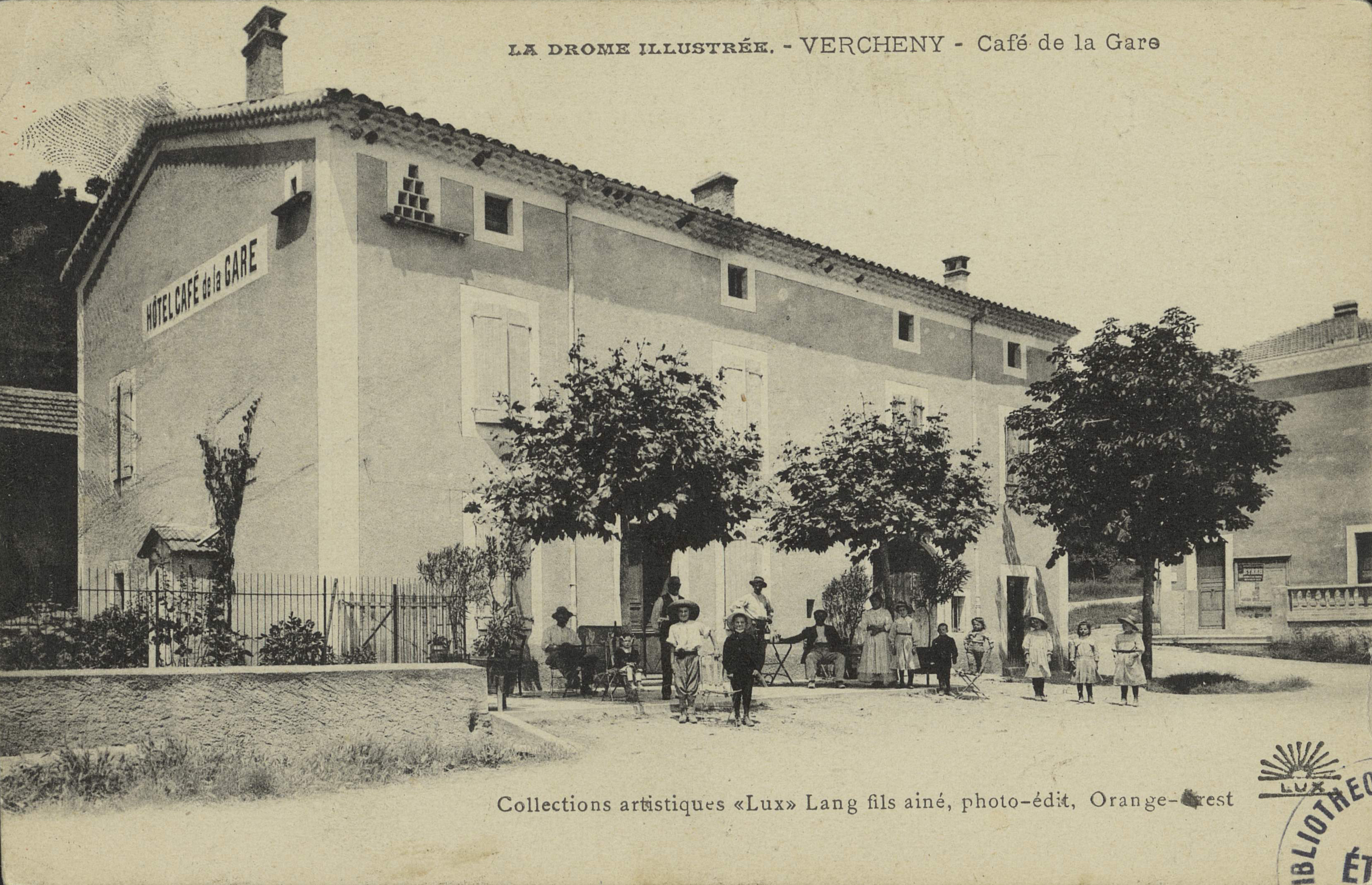 CA 1905-1915